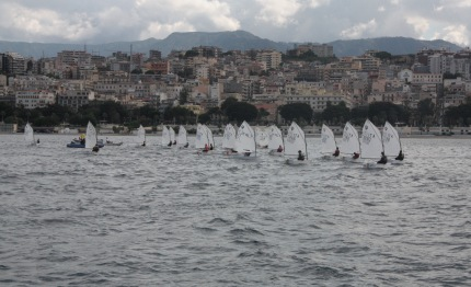 Reggio Calabria-Italy